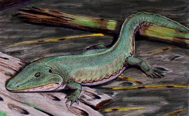 Restoration.